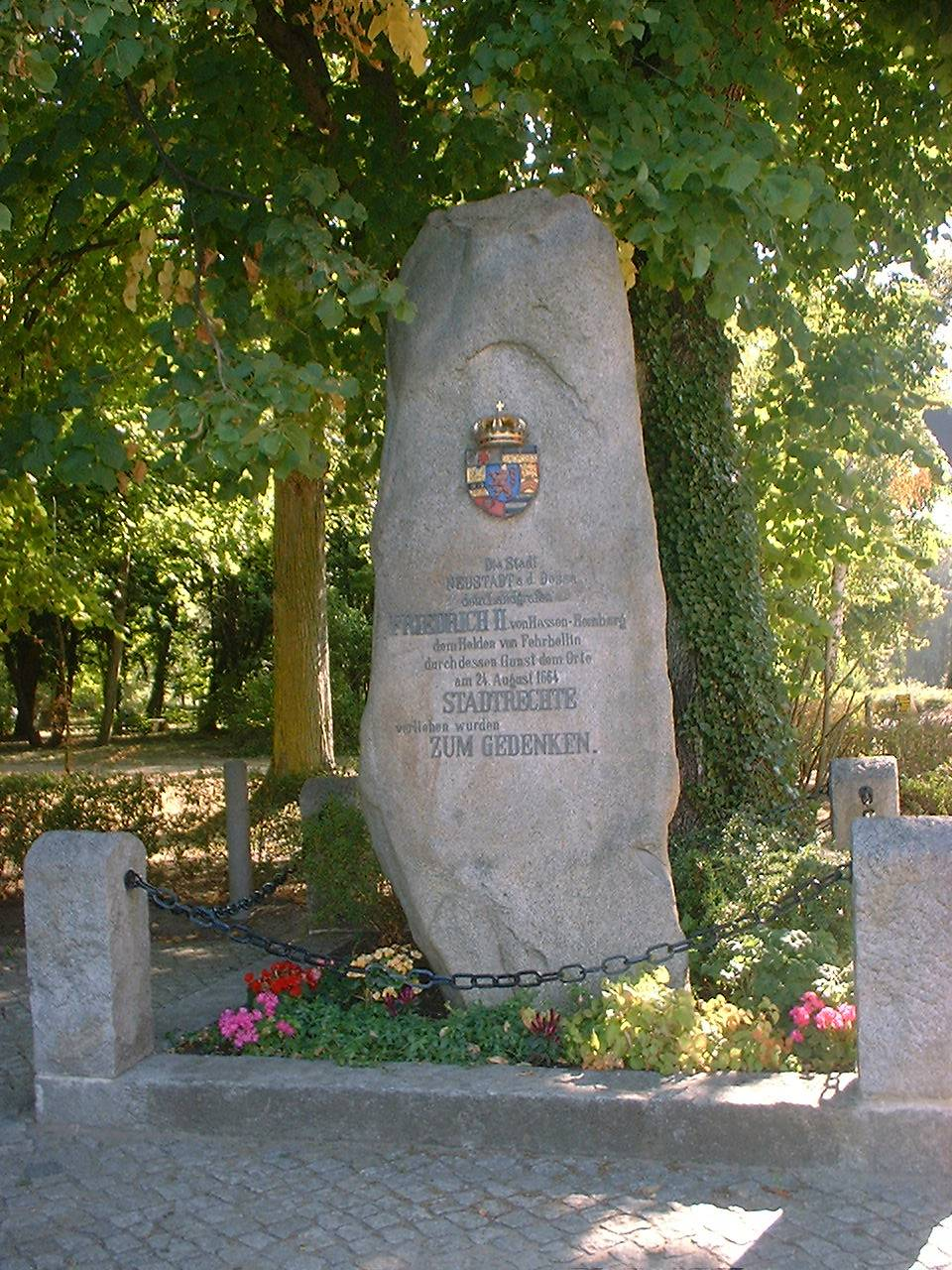 Memorial in Neustadt in Brandenburg, Germany